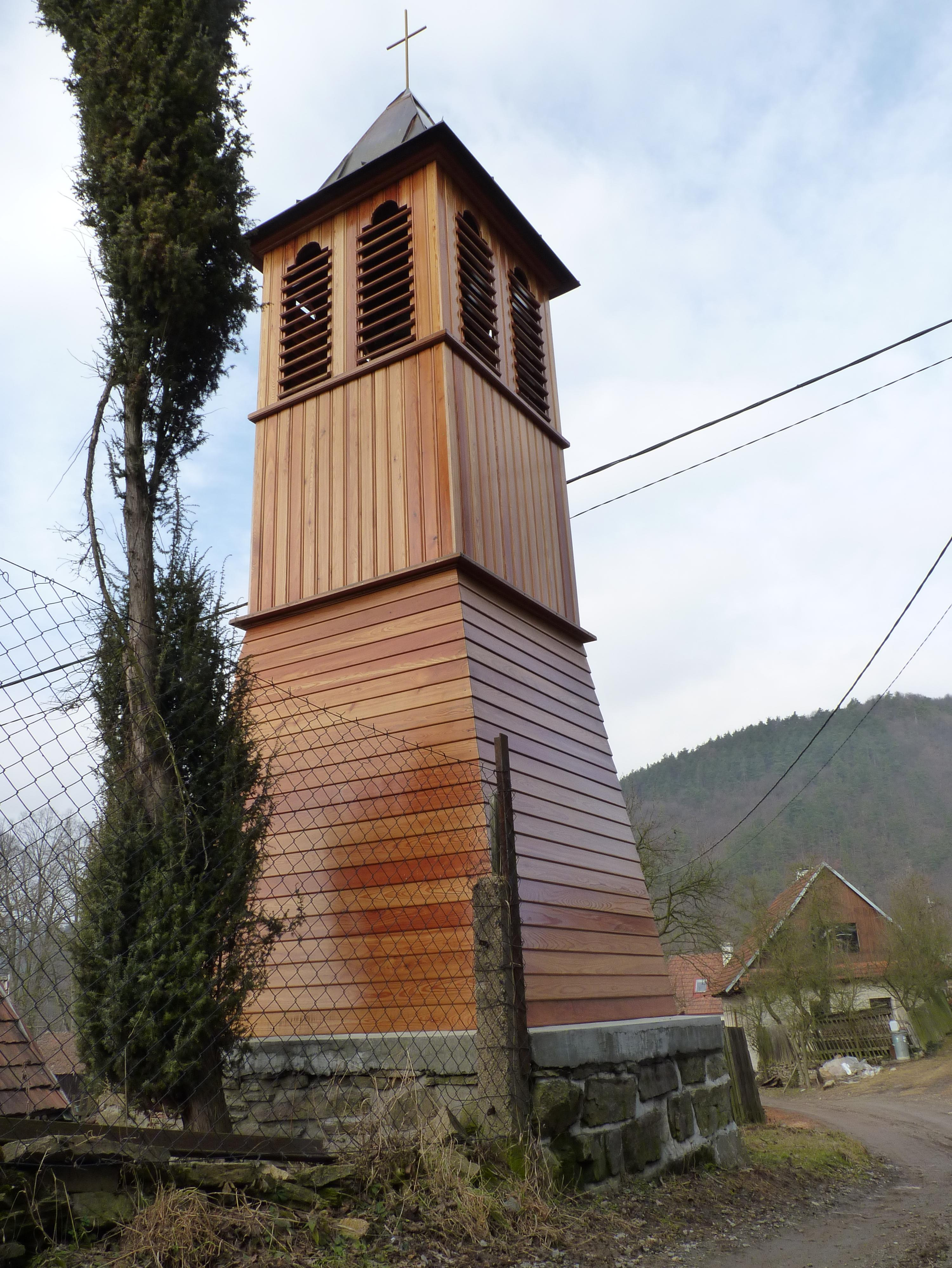 Borač. Brno-Country District, South Moravian Region, Czech Republic